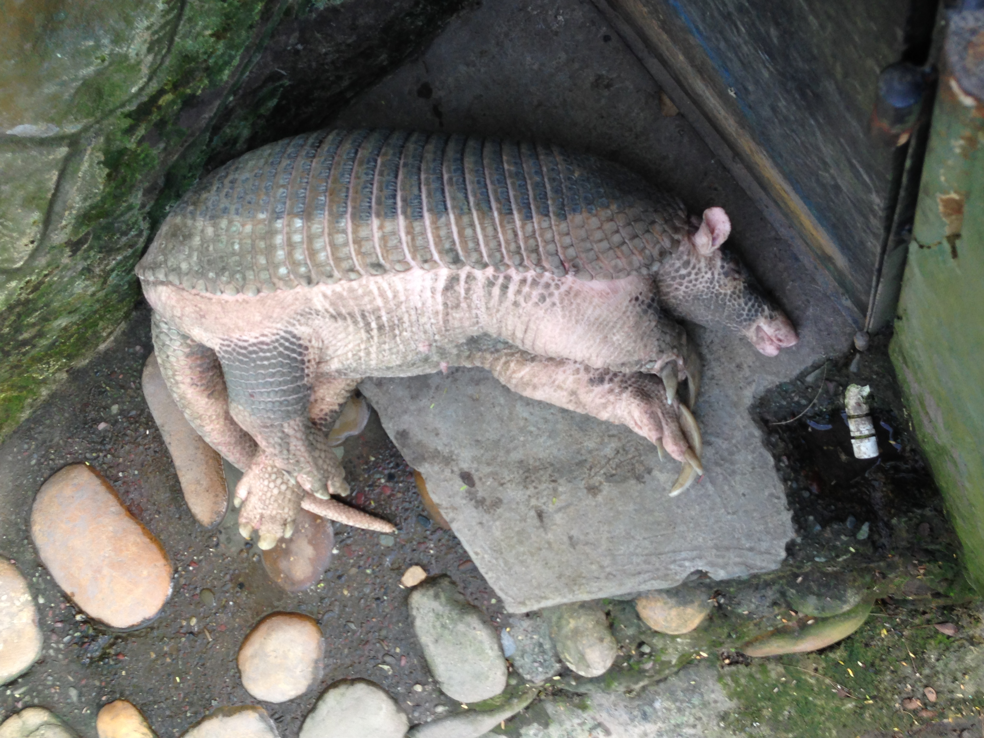 A male giant armadillo taking a nap at Villavicencio's Bioparque Los Ocarros